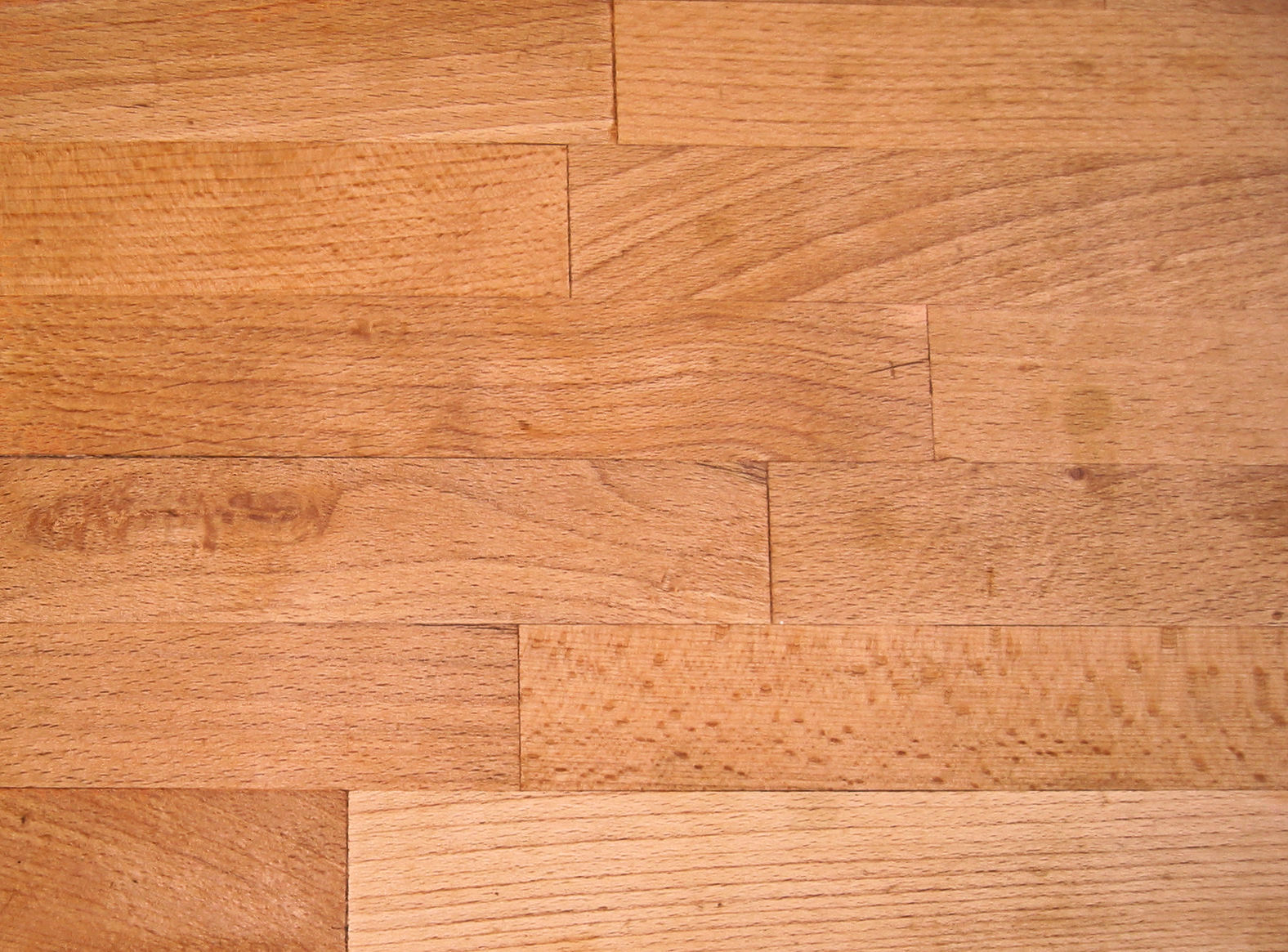 Fagus sylvatica wood